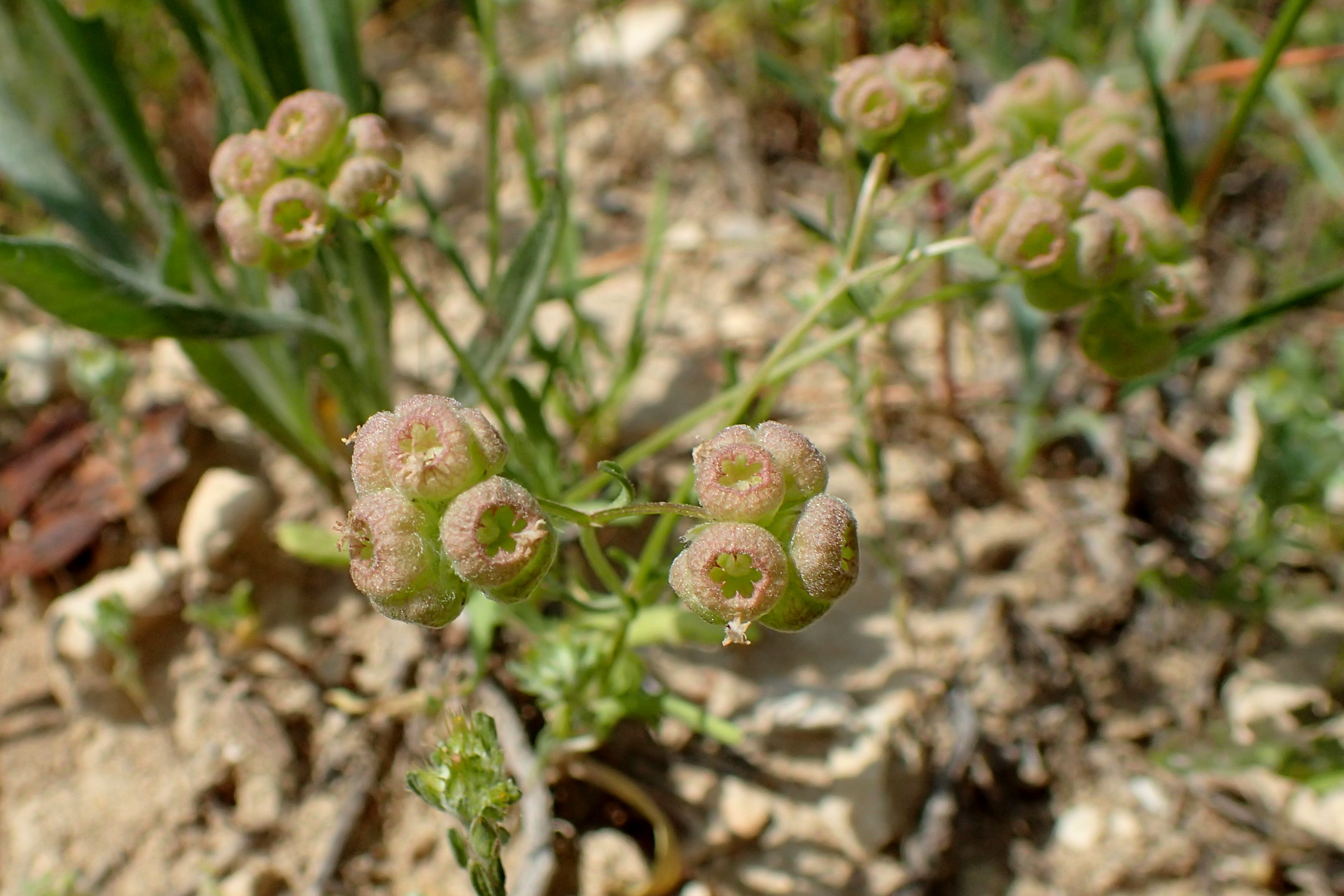 Valerianella vesicaria in Athalassa, Cyprus